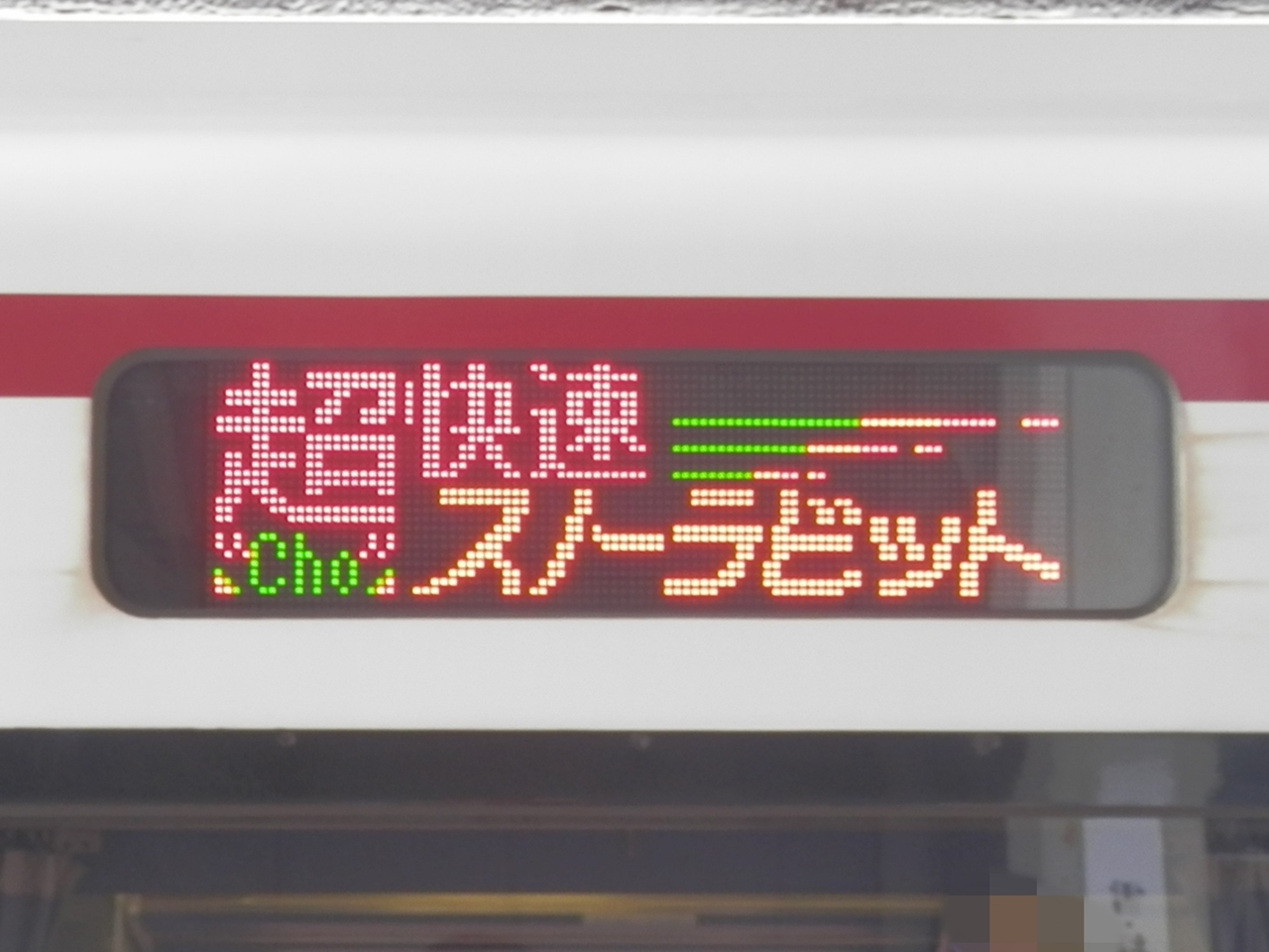 An LED train service type indicator on the side of a Hokuetsu Express HK100 series EMU on a "Cho Rapid Service Snow Rabbit"